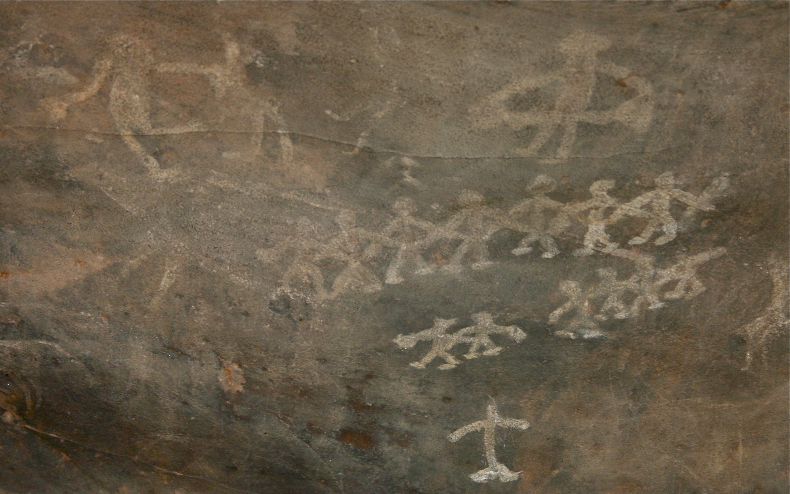 12,000-year old paintings at the Bhimbetka (Madhya Pradesh) rock shelters. Syncretism tour, Oct '11. UNESCO World Heritage Site